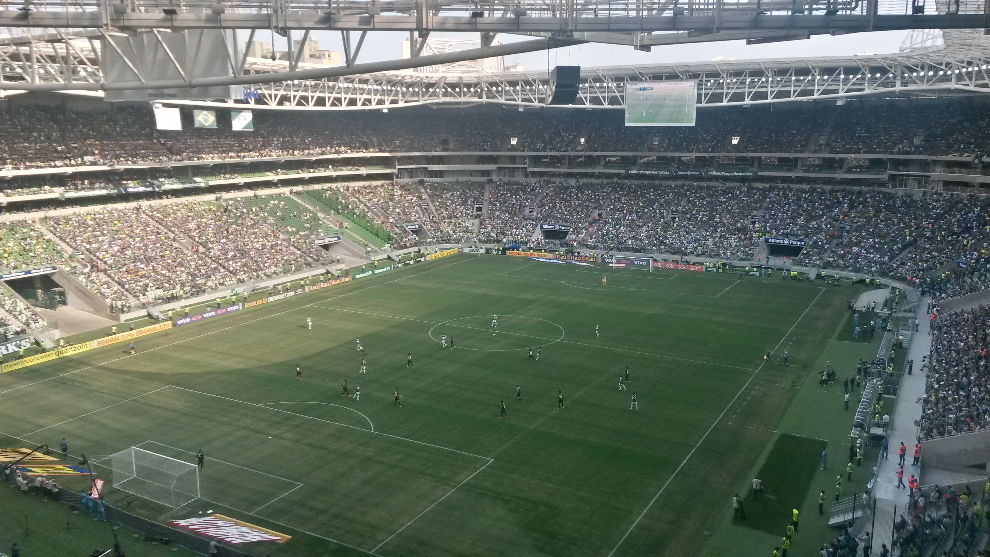 Palmeiras vs Atlético Paranaense at Allianz Parque, 2014.